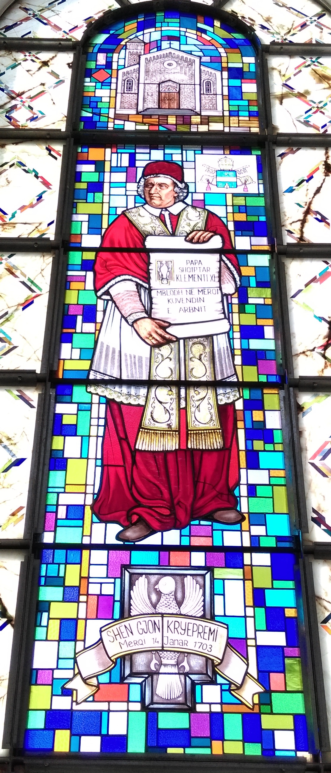 Stained glass depiction of Pope Clement XI at the Cathedral of Saint Mother Teresa in Prishtina